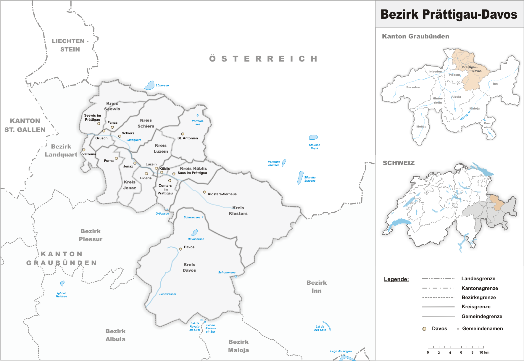 Municipalities in the district of Prättigau-Davos